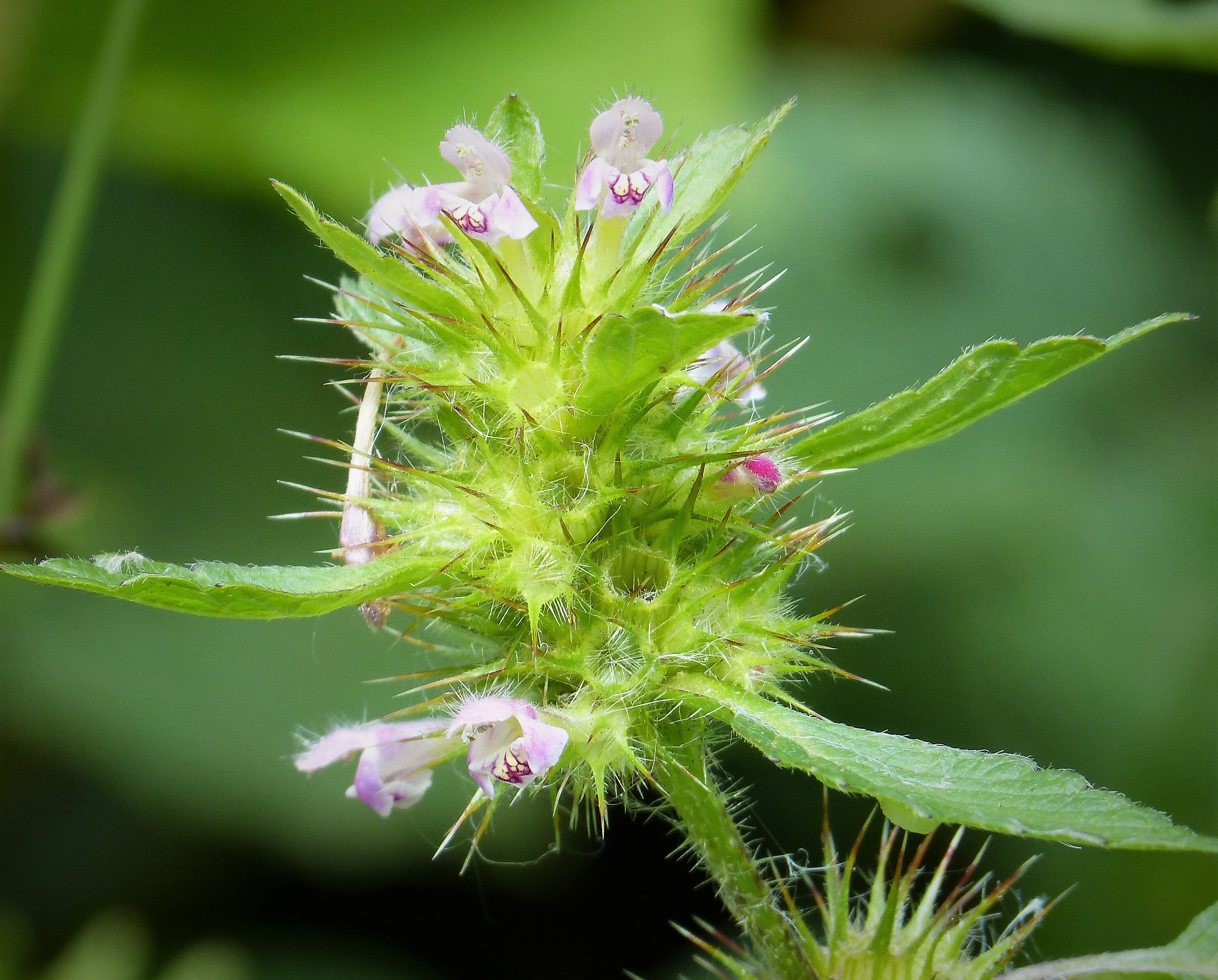 Rhos Fullbrook Reserve, Nr, Aberaeron Wales. SN666628